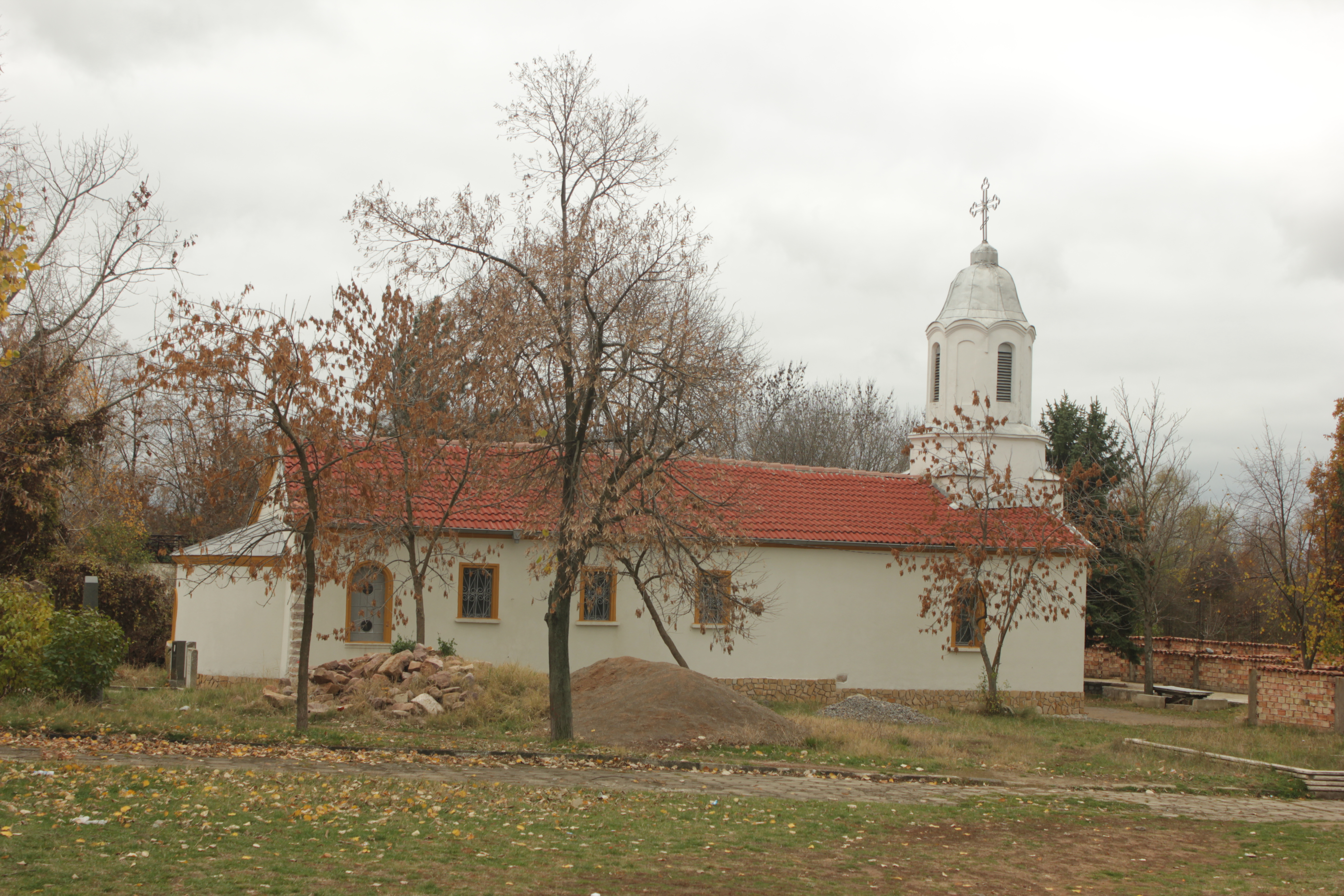 Saint Archangel Michael church in Dobroslavtsi